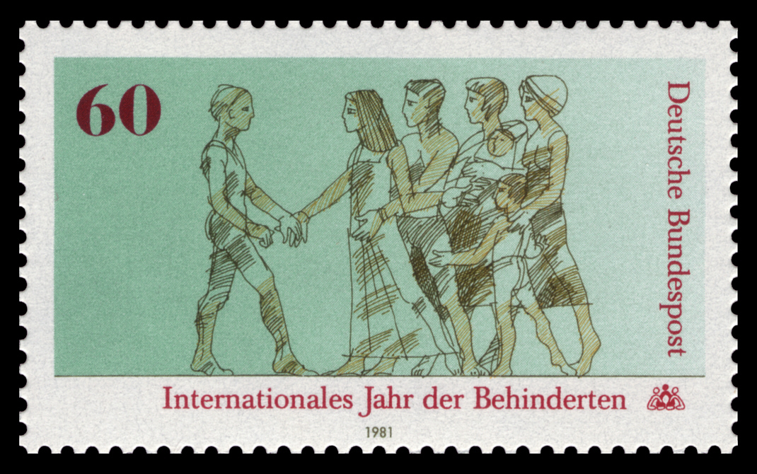 International Year of Disabled Persons